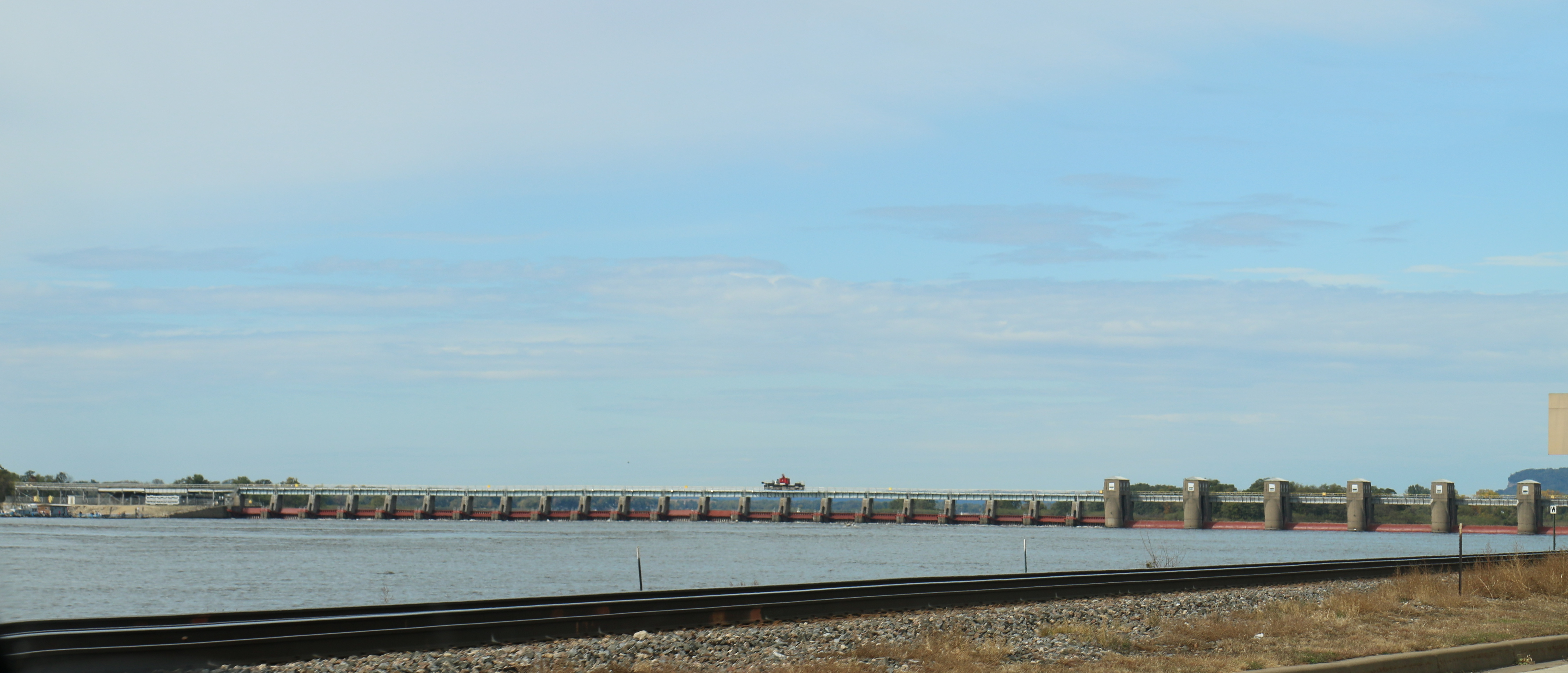 Mississippi River Lock and Dam number 4 from Wisconsin Highway 35.